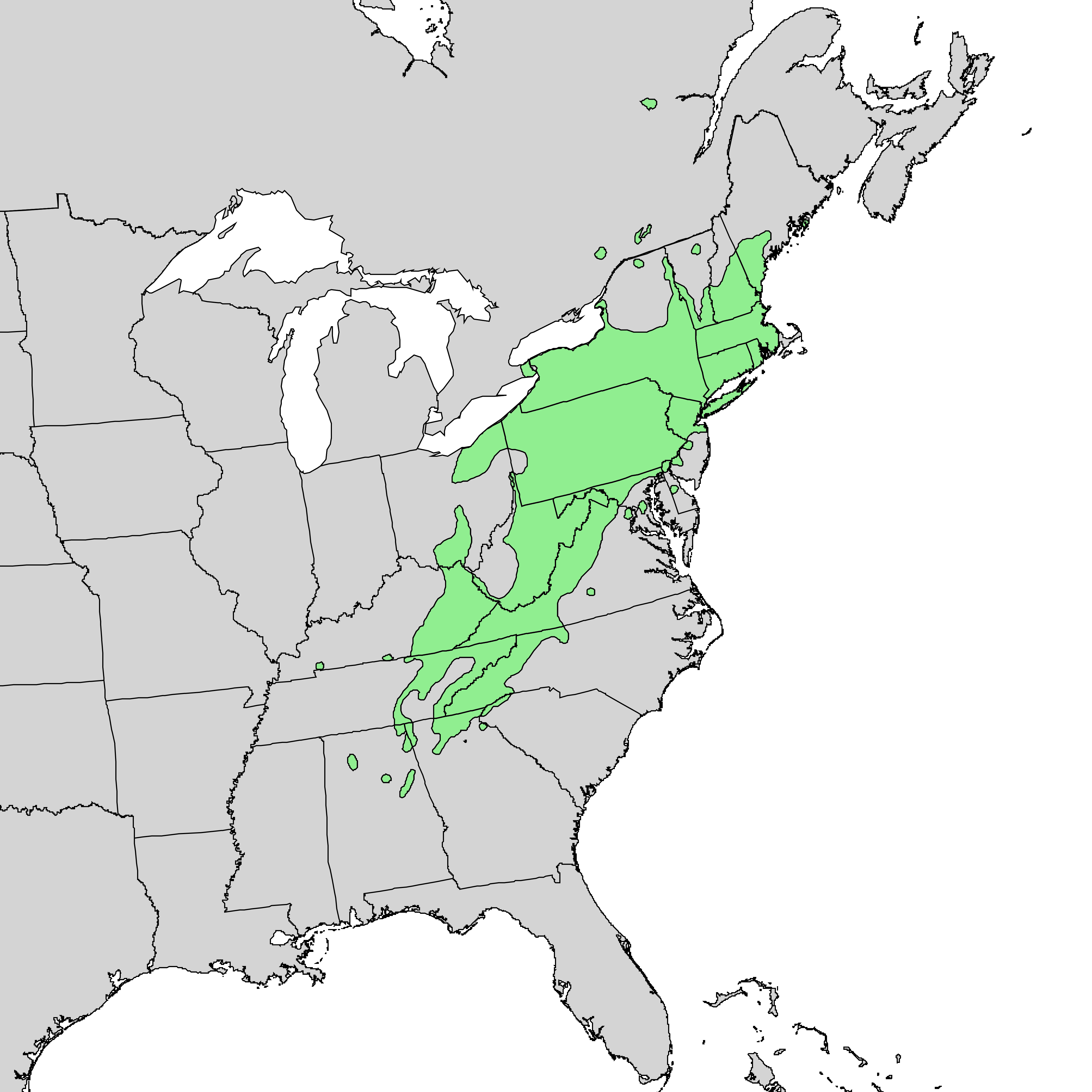 Natural distribution map for Betula lenta